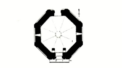 Plan of Sheykh Babı tomb in Fuzuli region of Azerbaijan republic